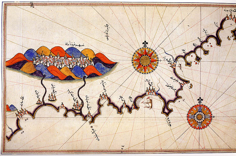 Granada in Spain on the Kitab-Ä± Bahriye (Book of Navigation) of Piri Reis